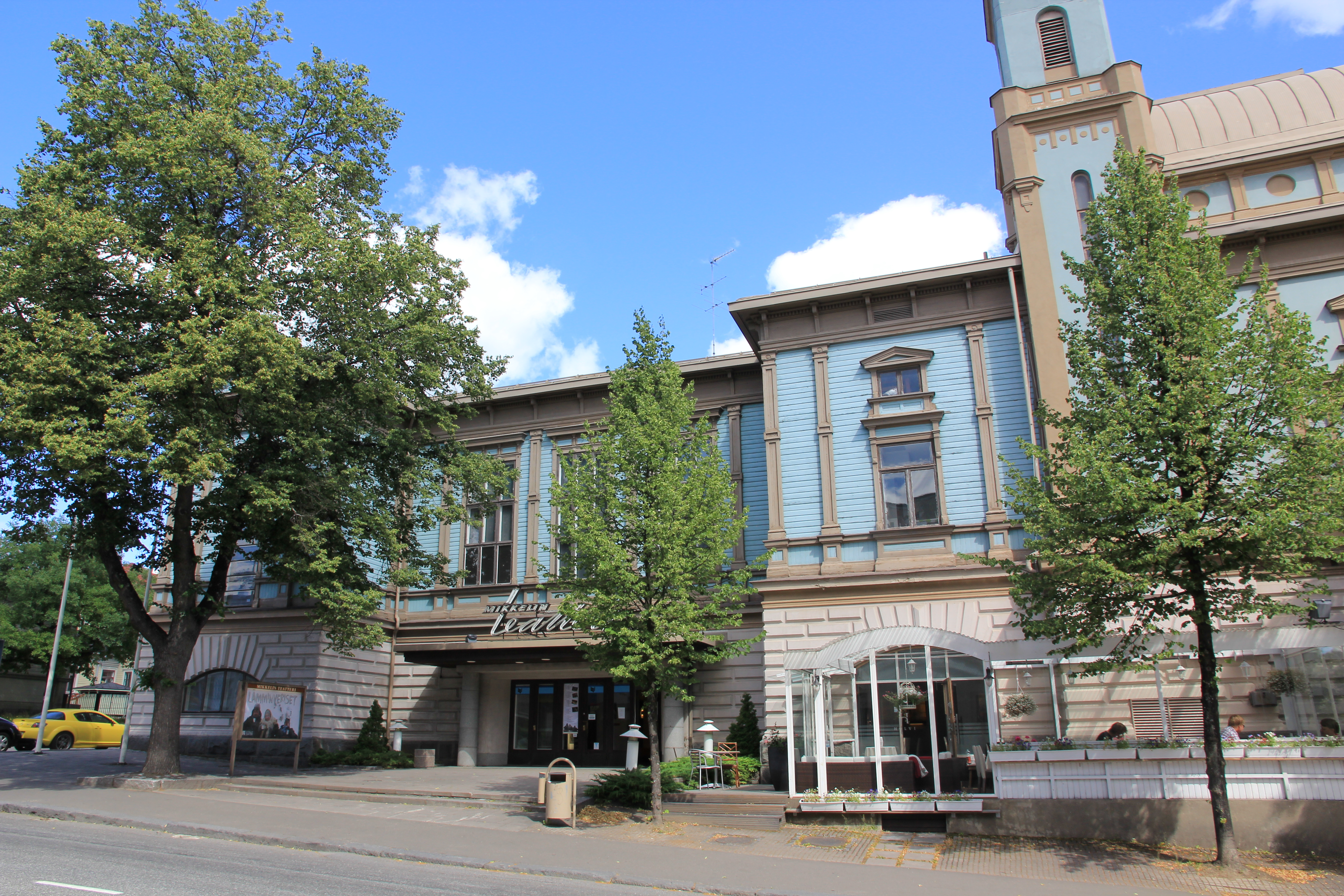 Mikkeli theatre.